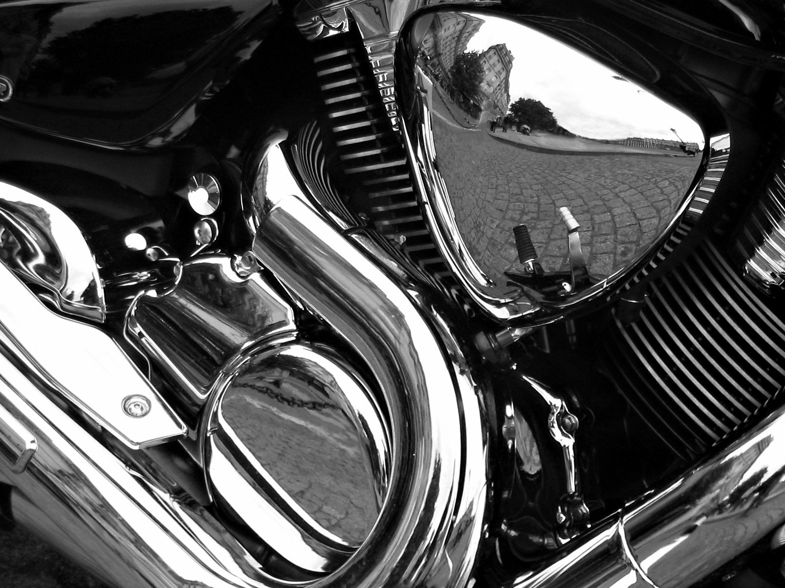 Reflections on a motorcycle